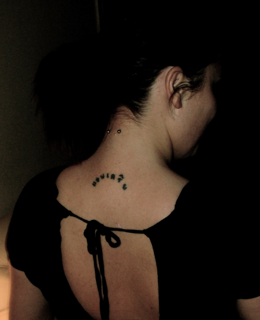 A woman with a Thai script tattoo done in a Thai manner with bamboo and chisel. She also has a neck piercing.